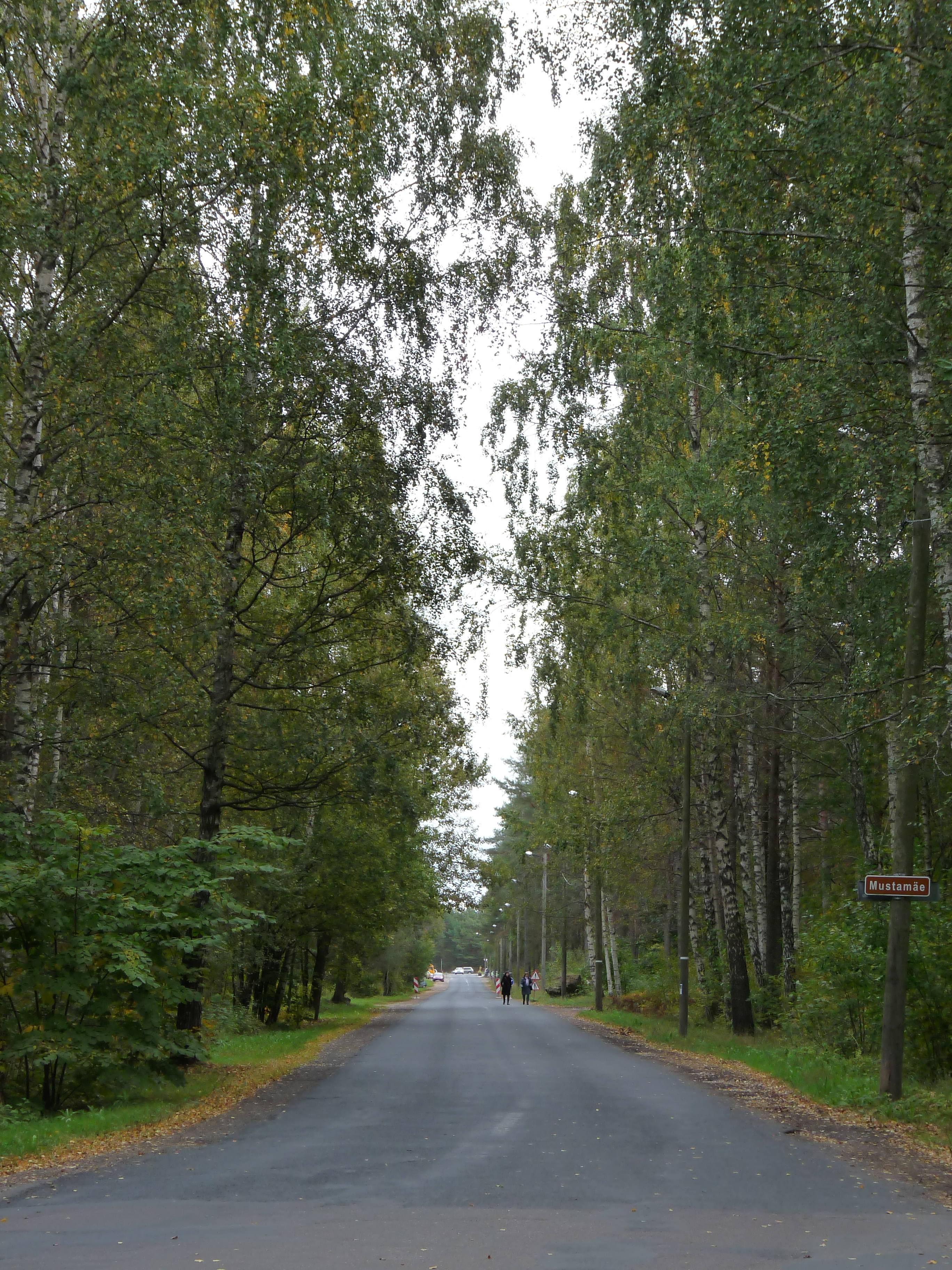 Üliõpilaste street in Tallinn, Estonia